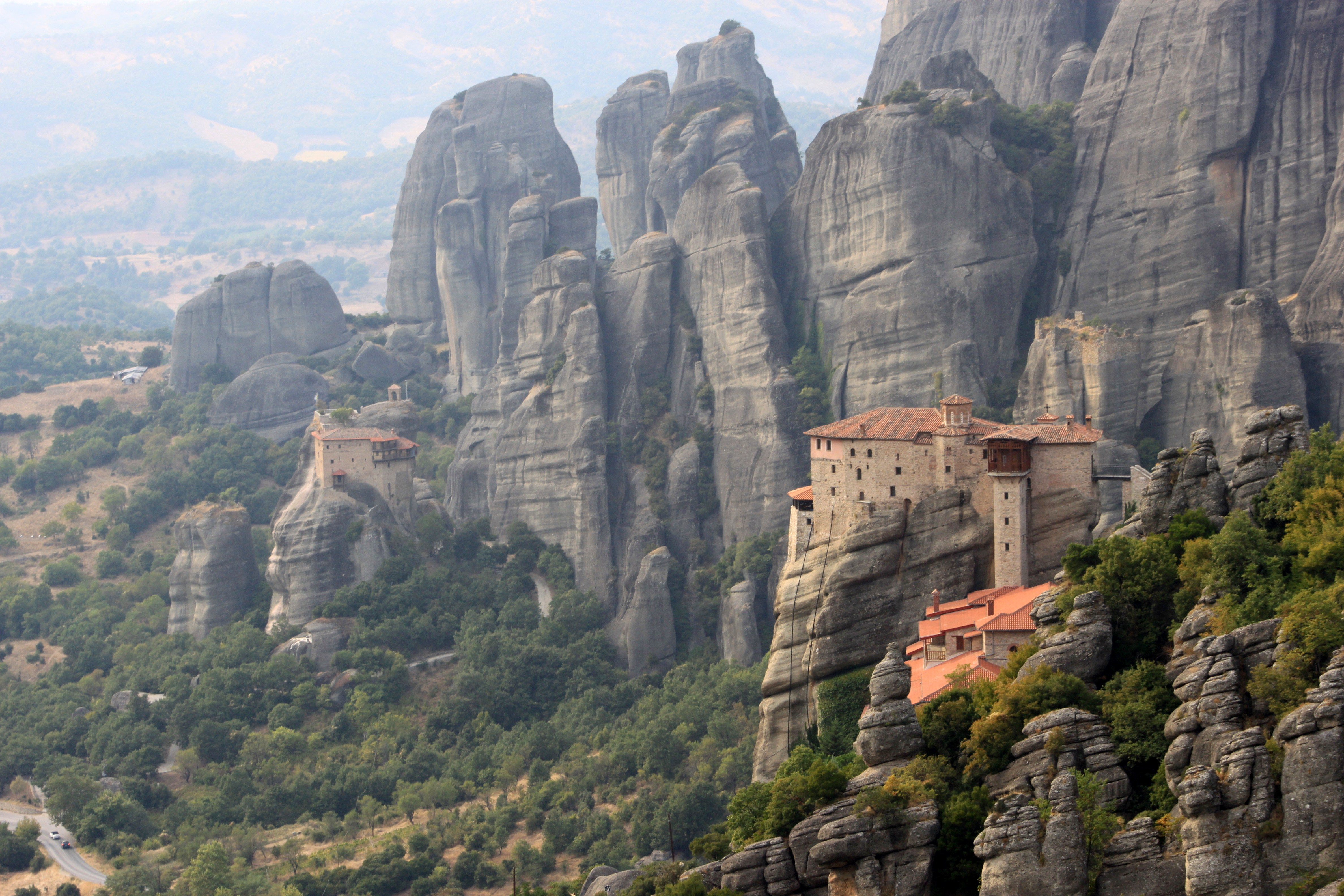 The Moni Rousanou and Moni Ayou Nikolaou in Meteora, Greece